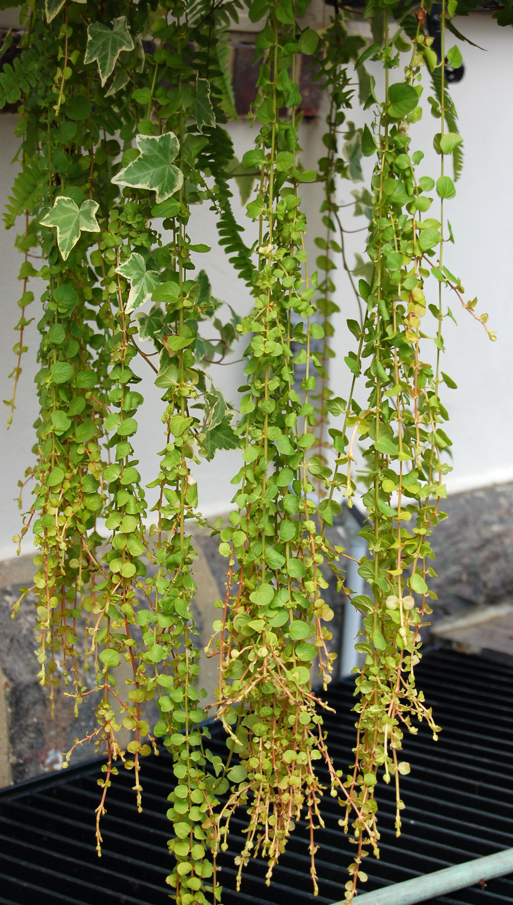 A picture of the leaves of the Lysimachia nummularia en 'Aurea' plant. Photo taken at the Chanticleer Garden where it was identified.